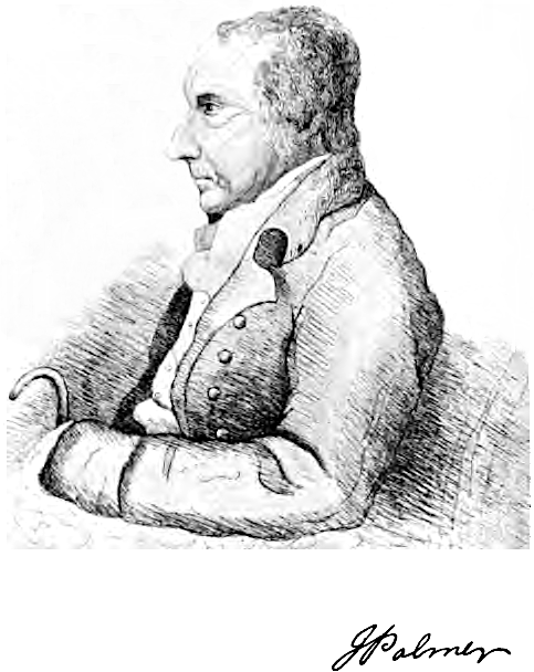 Portrait of John Palmer aged 75